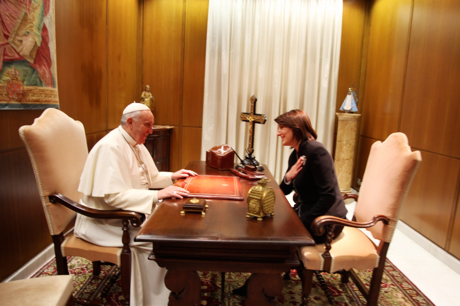 President Atifete Jahjaga was received at the holy see in the Vatican by His Holiness Pope Francis